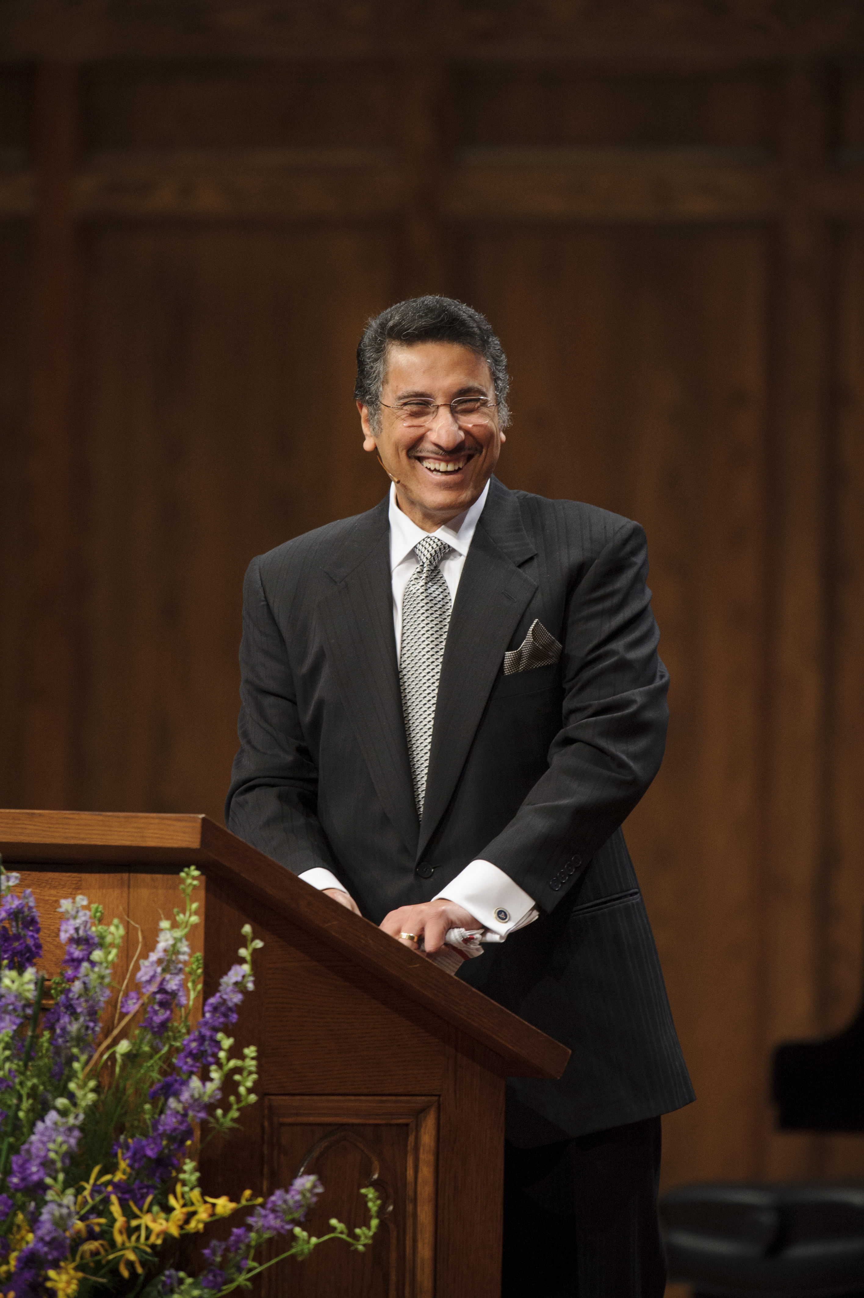 5/13/12 Atlanta, GA. Church of the Apostles. 25th Anniversary celebration. Photo by Michael A. Schwarz